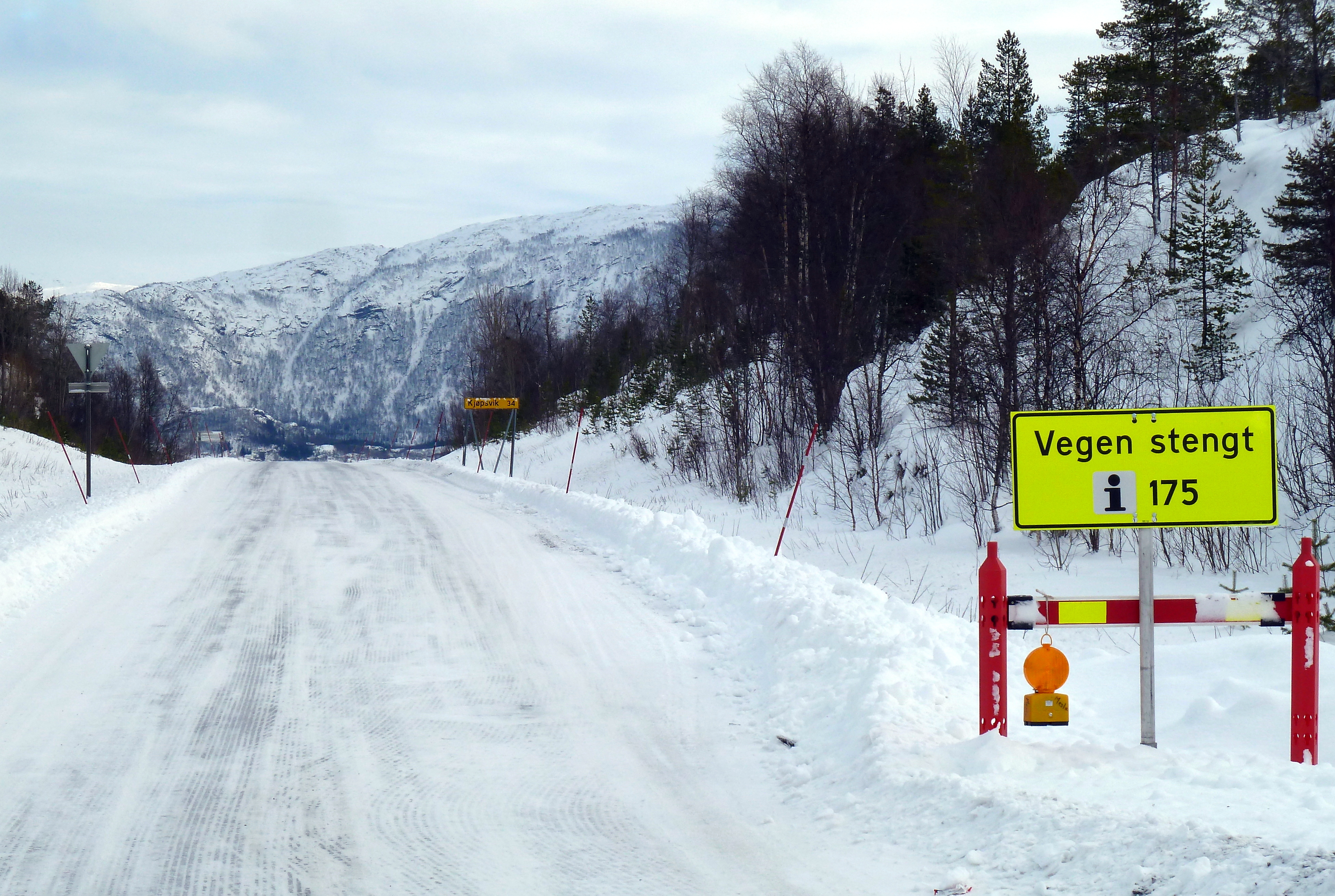 A roadsign at the Norwegian County Road 827 in Nordland: Road closed. Informationtelephone 175. Road is closed due to a tunnel fire in january 2013.